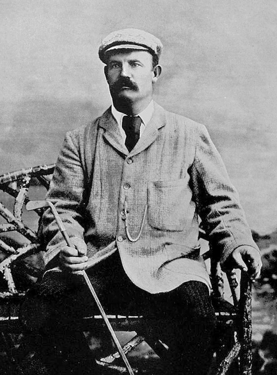 Sport, Golf, circa 1895, Andrew Kirkaldy, the St,Andrews professional who was unlucky enough to finish runner up twice in the British Open Golf Championship in 1889 and 1891